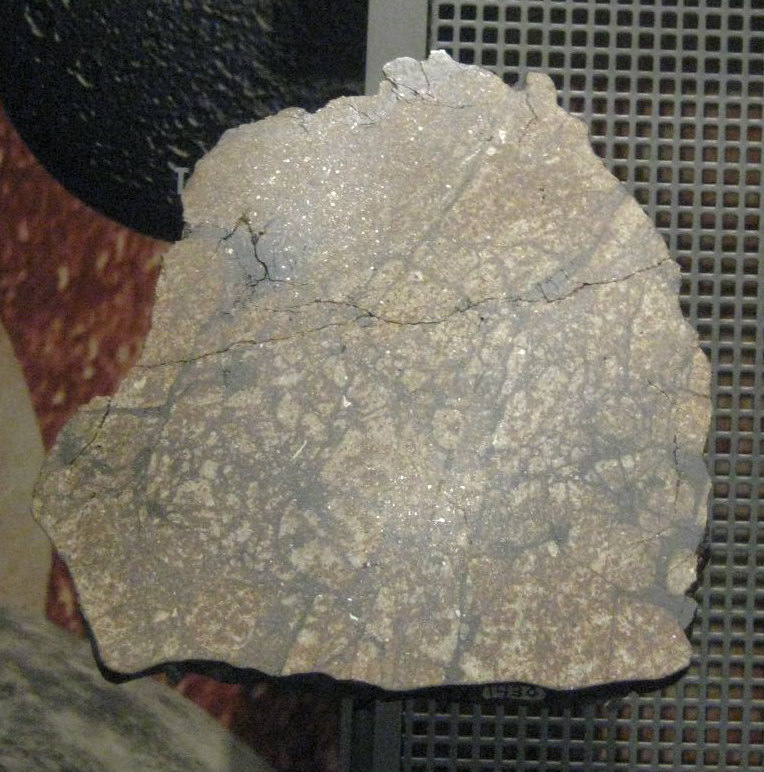 Walters meteorite. Fell 1946, Cotton County, Oklahoma.